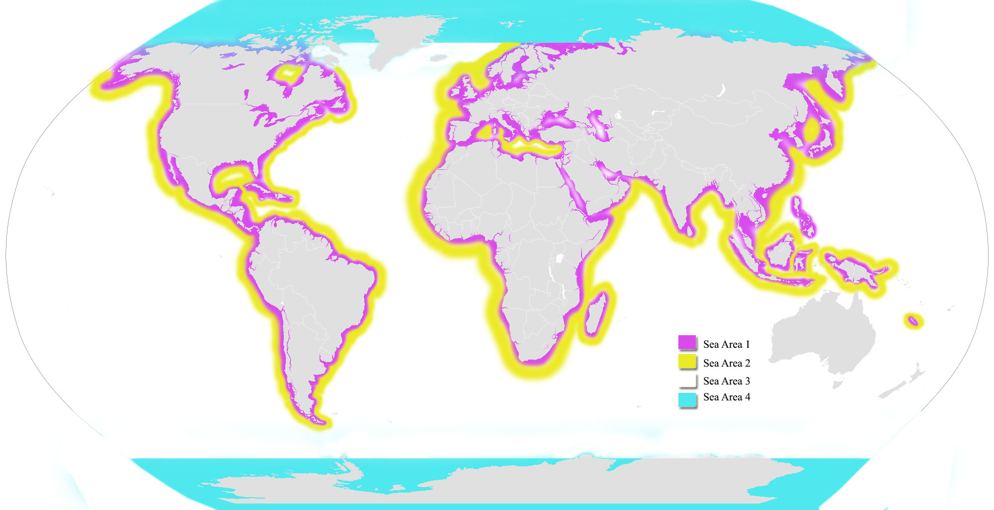 A graphical representation of the Sea Areas within the Global Maritime Distress and Safety System